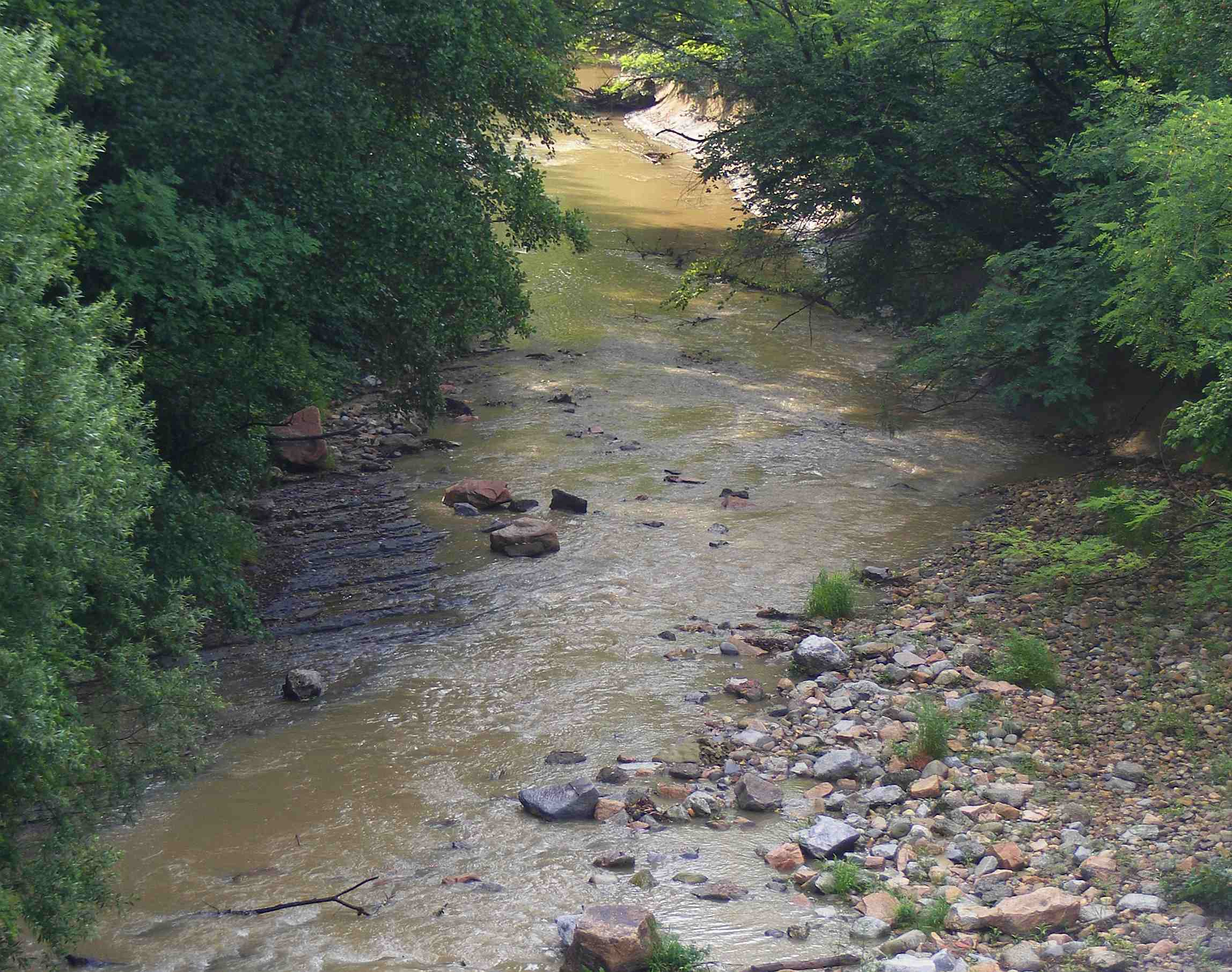 Ostola creek near Rolino (Masserano, BI, Italy)